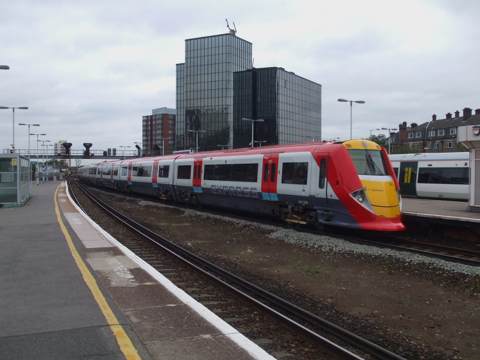 Class 460 Gatwick Express unit 460008 rushes southbound through East Croydon, with a service bound for Gatwick Airport. This unit is now in store and will be transferred to South West Trains for use on express and outer suburban services.